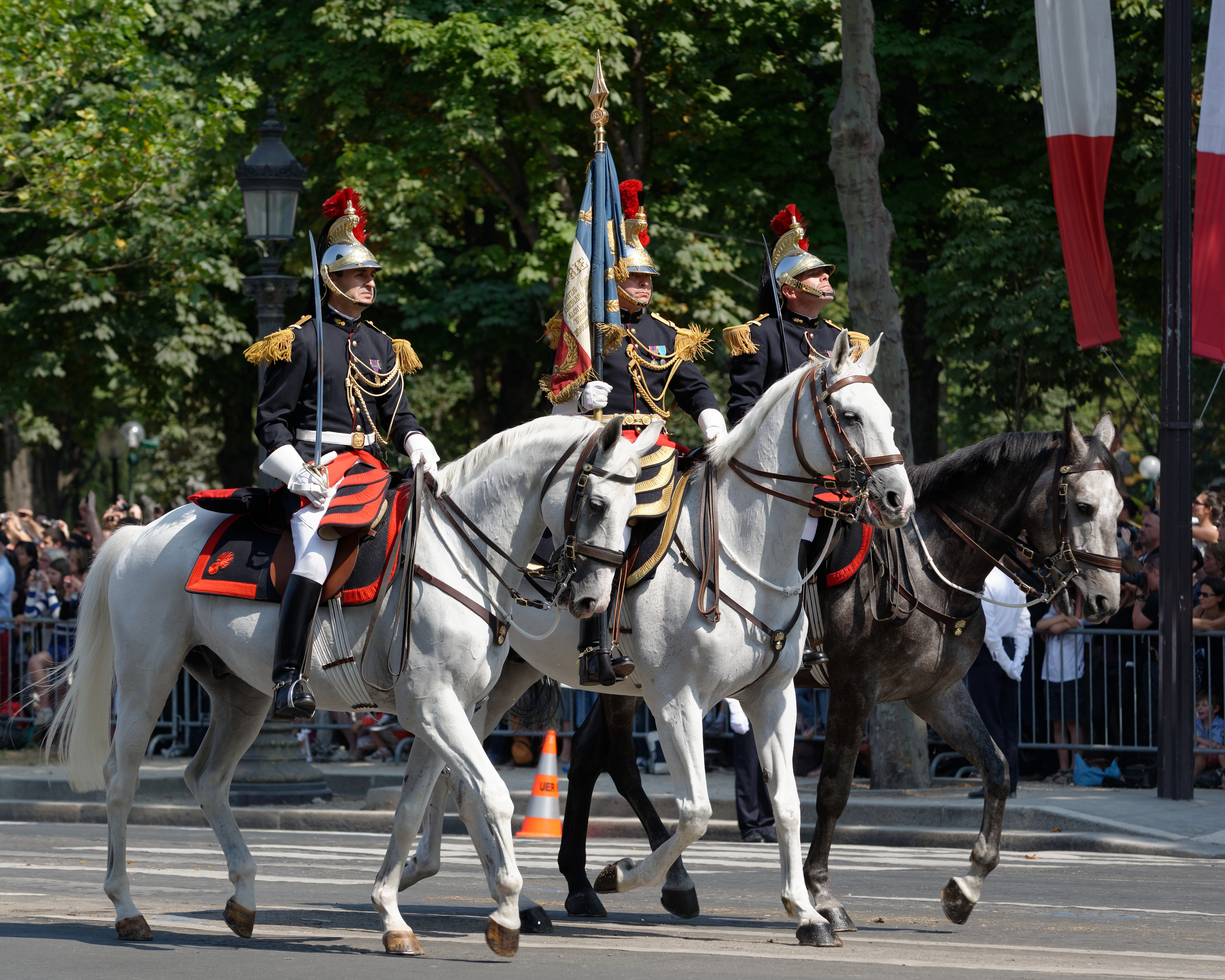 Colour guard of the mounted regiment of the Republican Guard in the Bastille Day 2013 military parade on the Champs-Élysées in Paris.